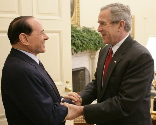 President George W. Bush welcomes Italian Prime Minister Silvio Berlusconi to the Oval Office at the White House, Monday, Oct. 31, 2005 in Washington.